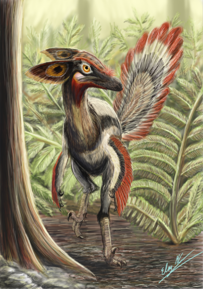 Philovenator curriei life restoration.